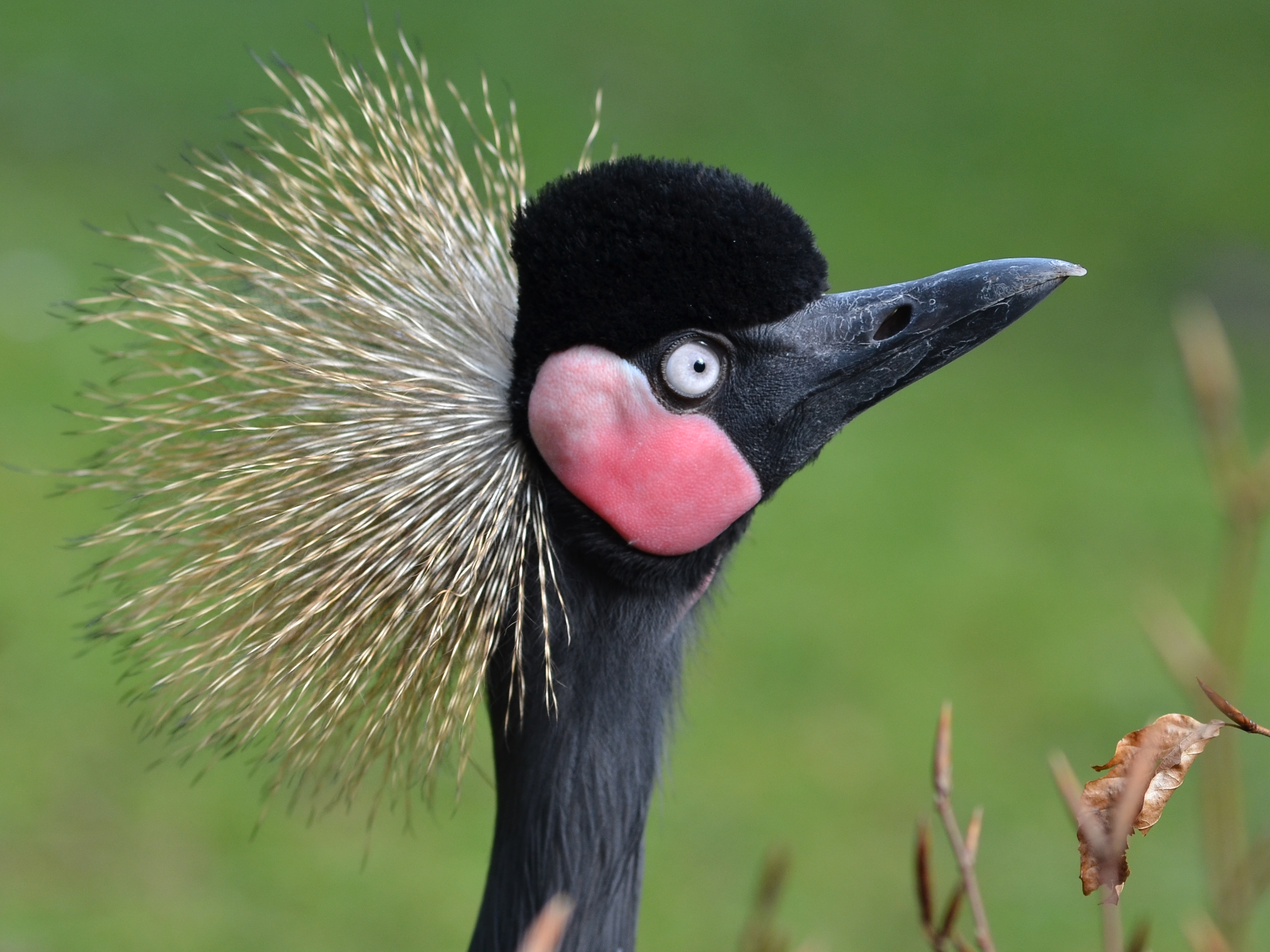 Black Crowned Crane (Balearica pavonina) at Weltvogelpark Walsrode (Walsrode Bird Park, Germany)